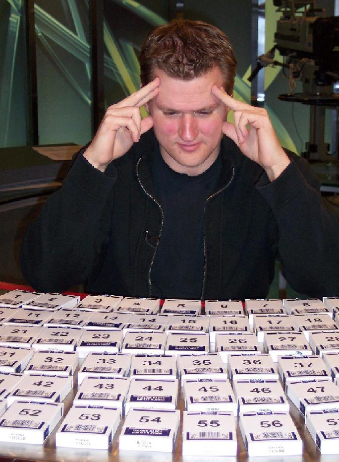 Dave Farrow setting his second Guinness World Record for Greatest Memory at CTV Television Network studios in April, 2007